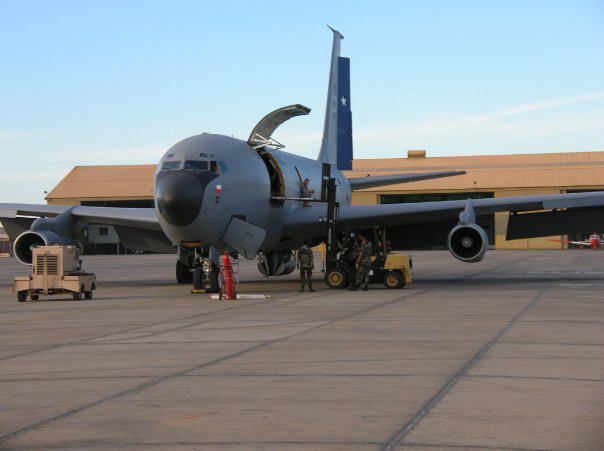 The first Chilean Boeing KC-135E Stratotanker arrives in Santiago de Chile in February 2010. U.S. Air Force Reserve crews from the 313th FLTF, Lackland Air Force Base and the Utah Air National Guard helped deliver the first of three U.S. KC-135E aircraft acquired by the Chilean Air Force. Members of the 151st Air Refueling Wing deployed to Chile to help provide operations and maintenance training to the Chilean AF on the aircraft, but the training quickly transformed into a real-world humanitarian operation after the 8.8-magnitude earthquake hit the country. Aircrews have been transporting critical medical equipment and supplies throughout the country.